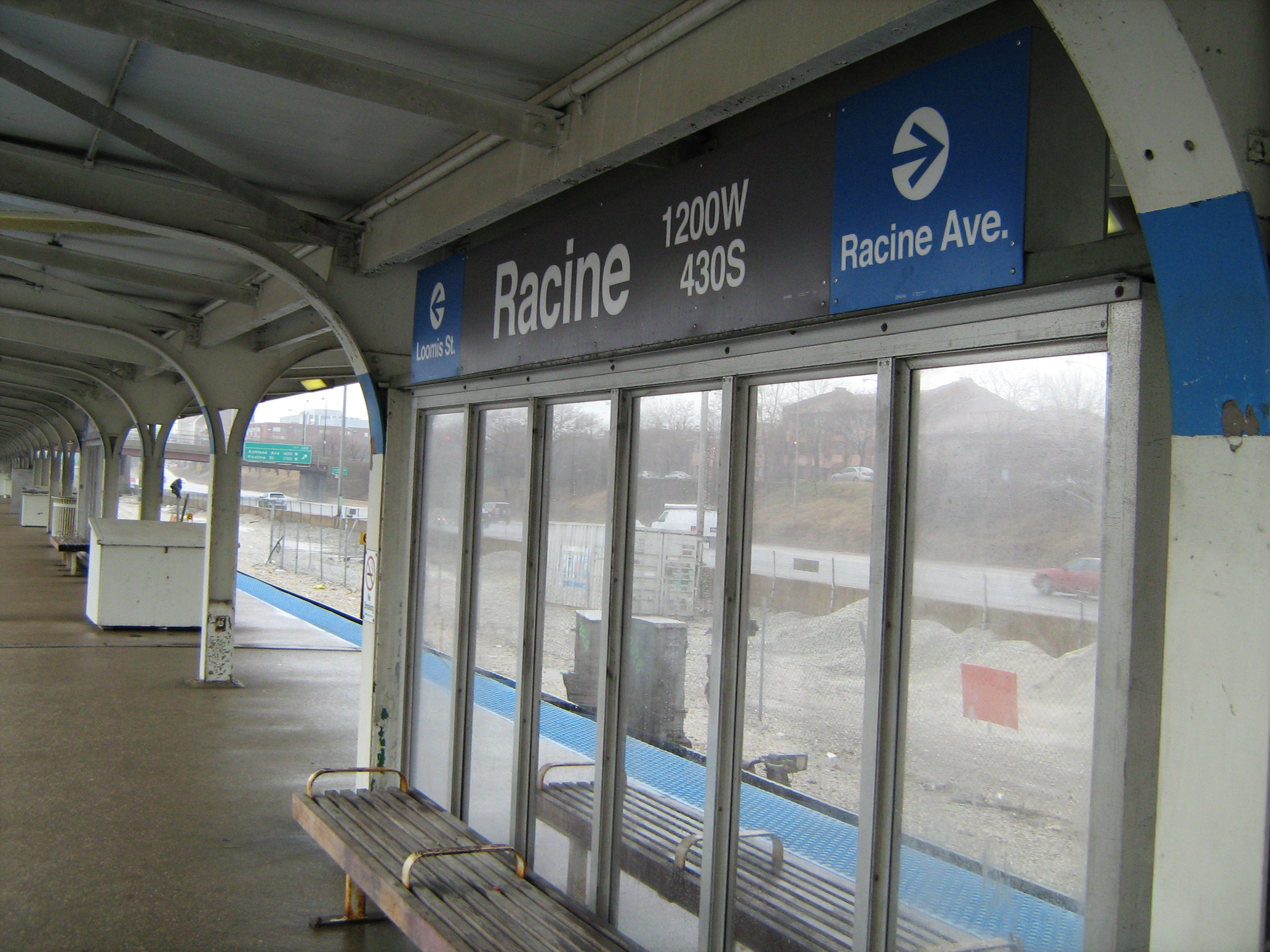 Racine station